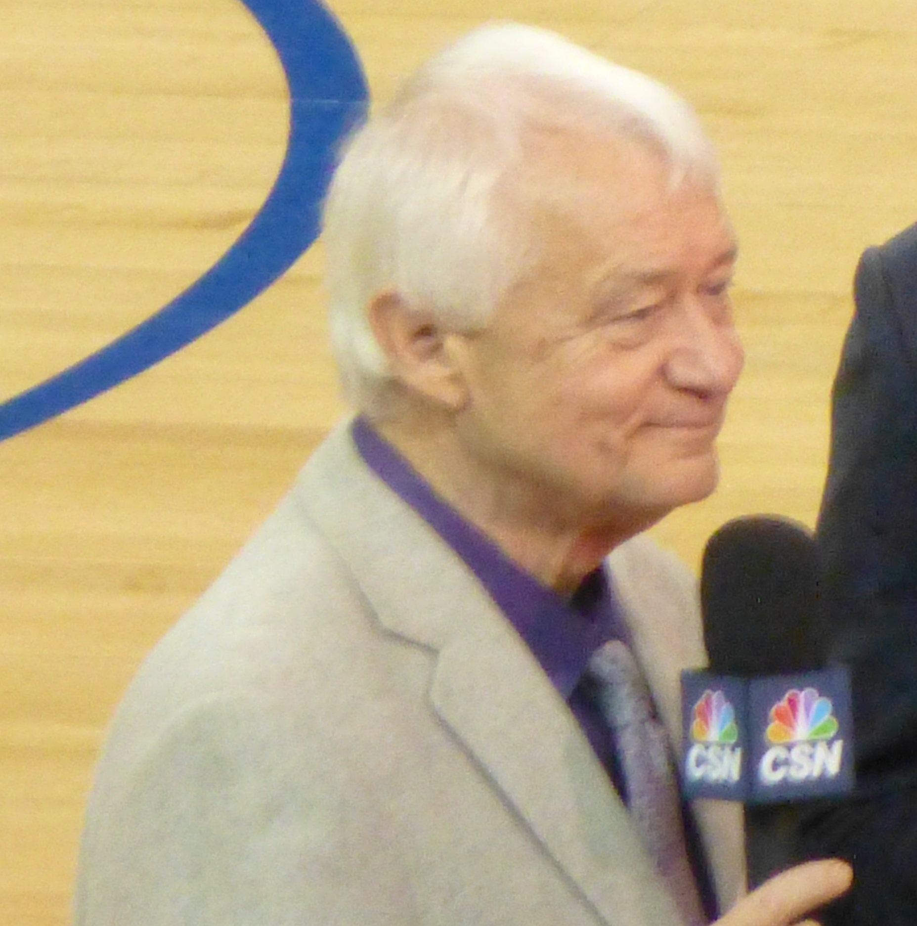 Jerry Reynolds and Grant Napear reporting on a Sacramento Kings game at the Oracle Arena, Oakland, Calif.